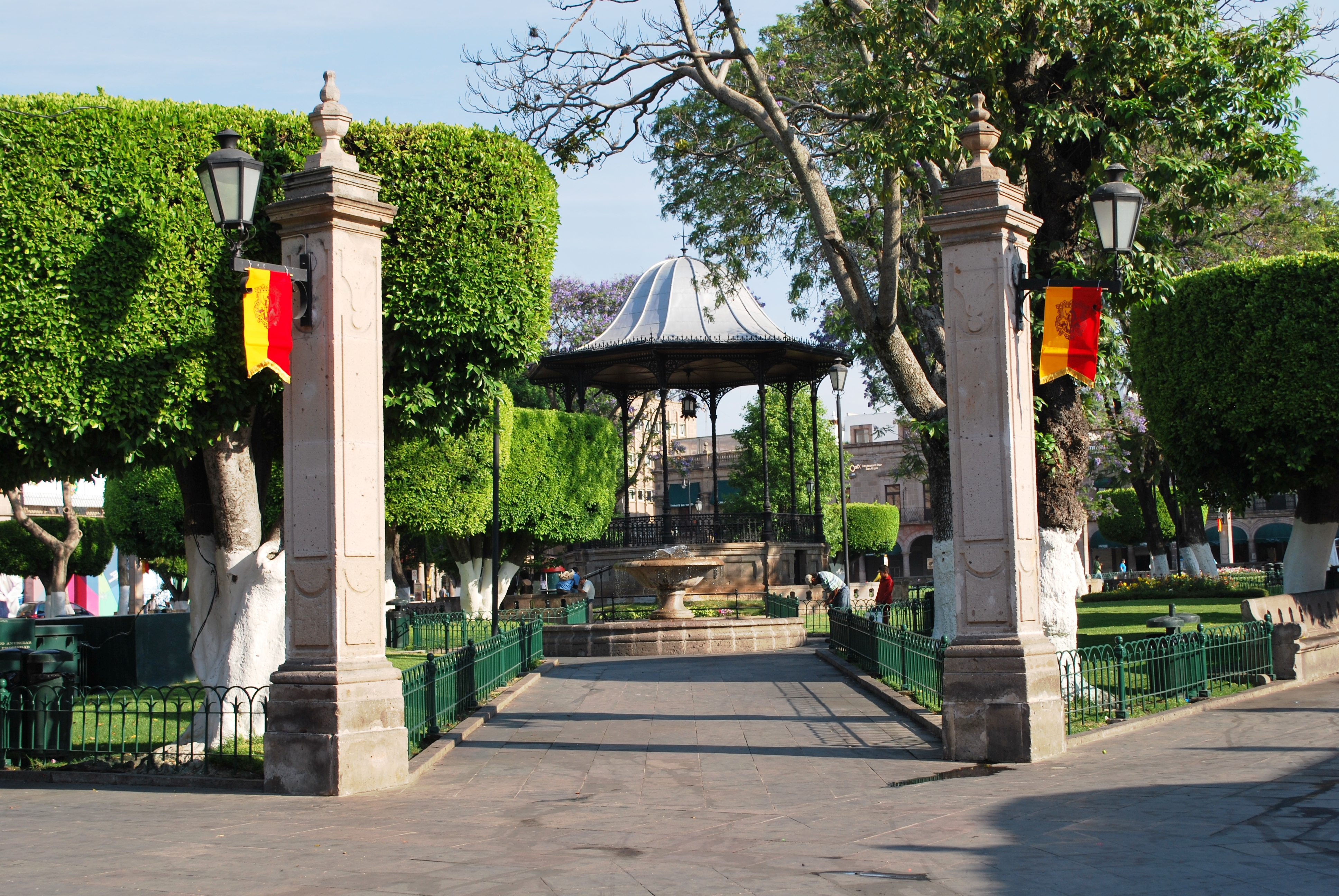 View of the Plaza de Armas in Morelia